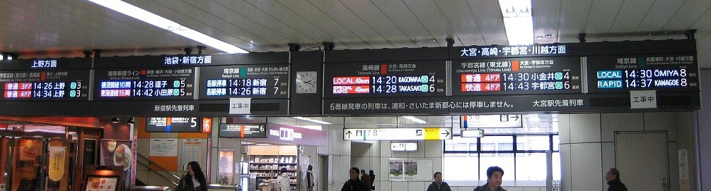 Large LED Display of Train Schedule at Akabane Station